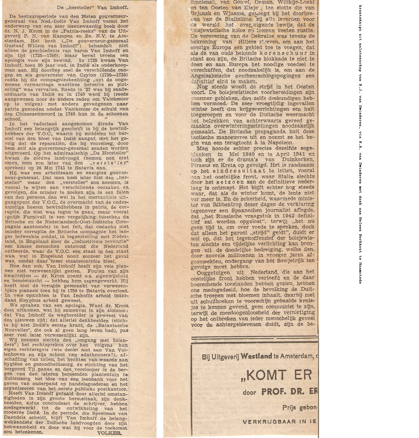 piece of newspaper found in book Gustaaf Willem van Imhoff by Dr. N.J. Krom, handwritten in the book is B.J. van Swinderen 1942